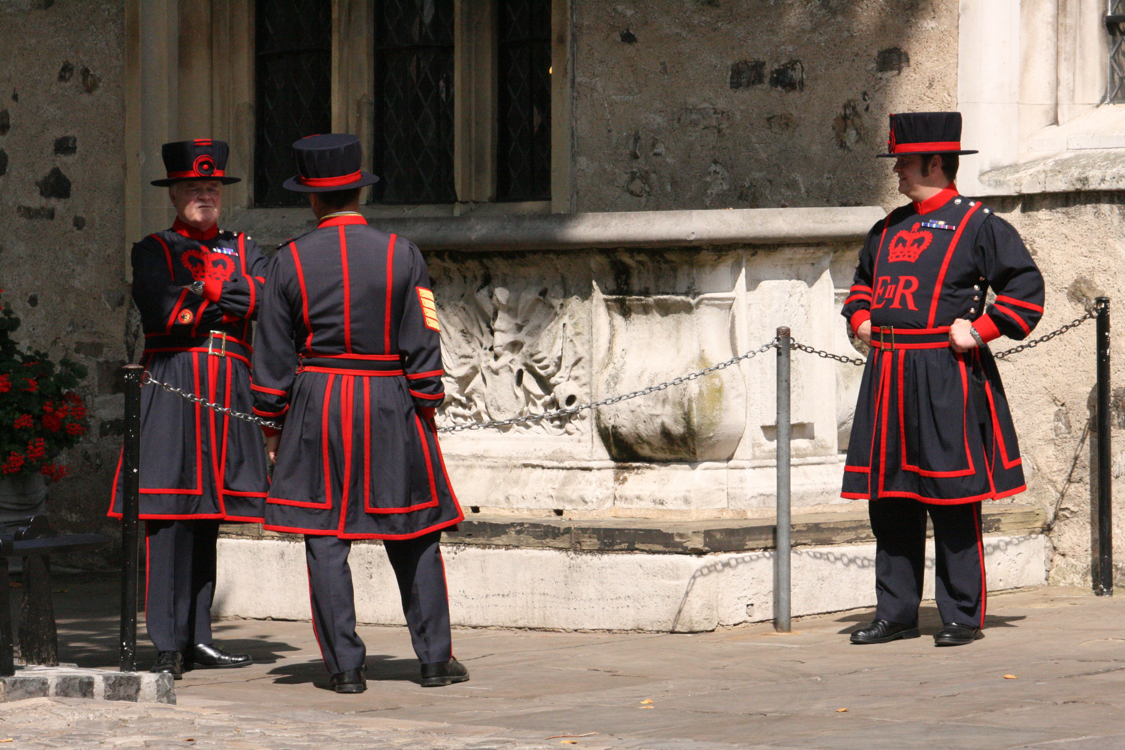 Tower of London, three Yeomen Warders ("beefeaters")